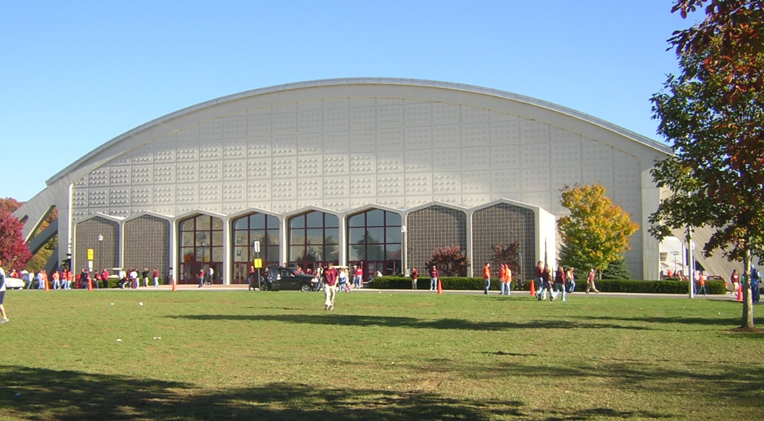 Cassell Coliseum at Virginia Tech, home of the school's basketball teams